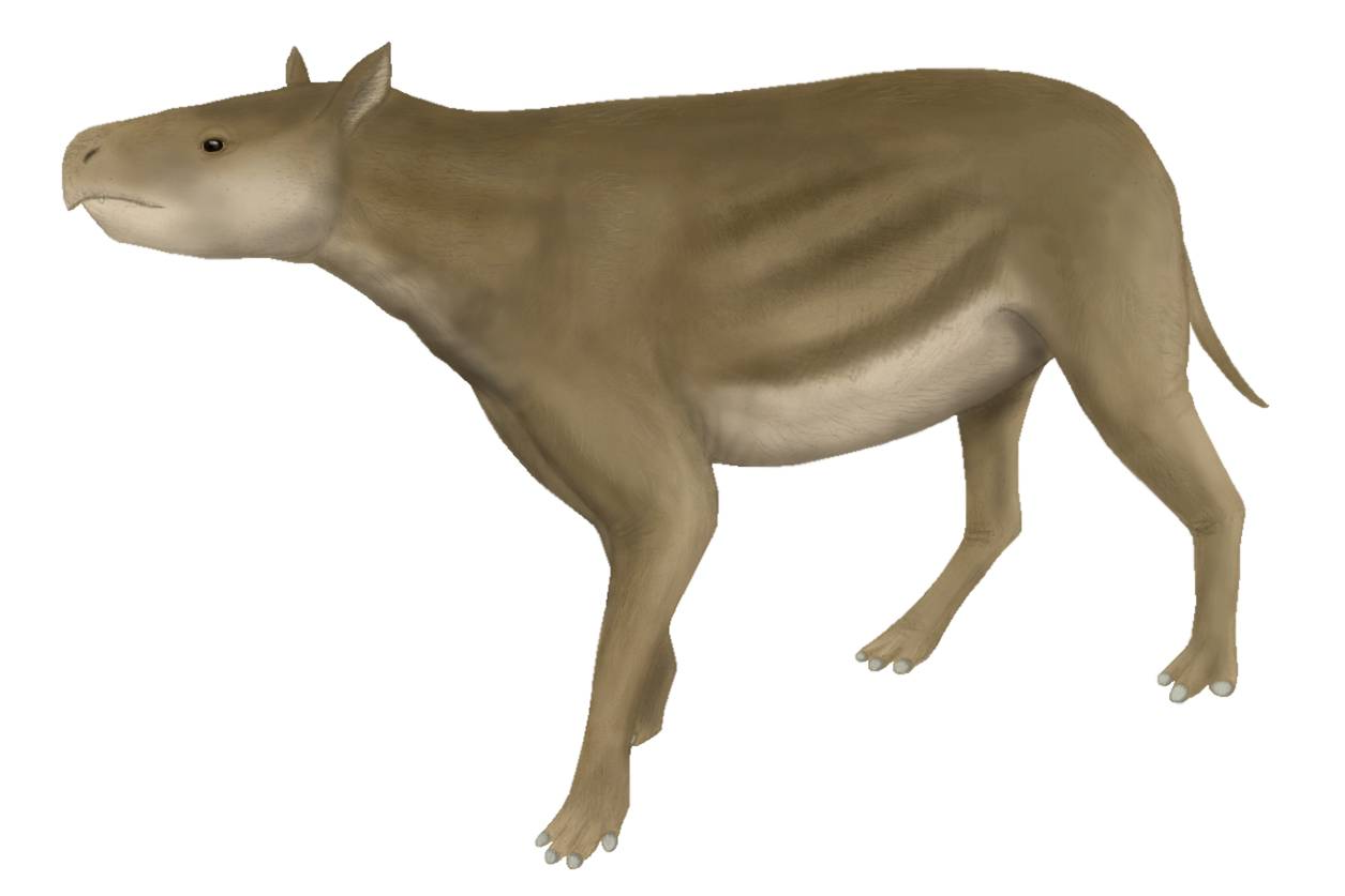 Life restoration of Heptodon posticus.